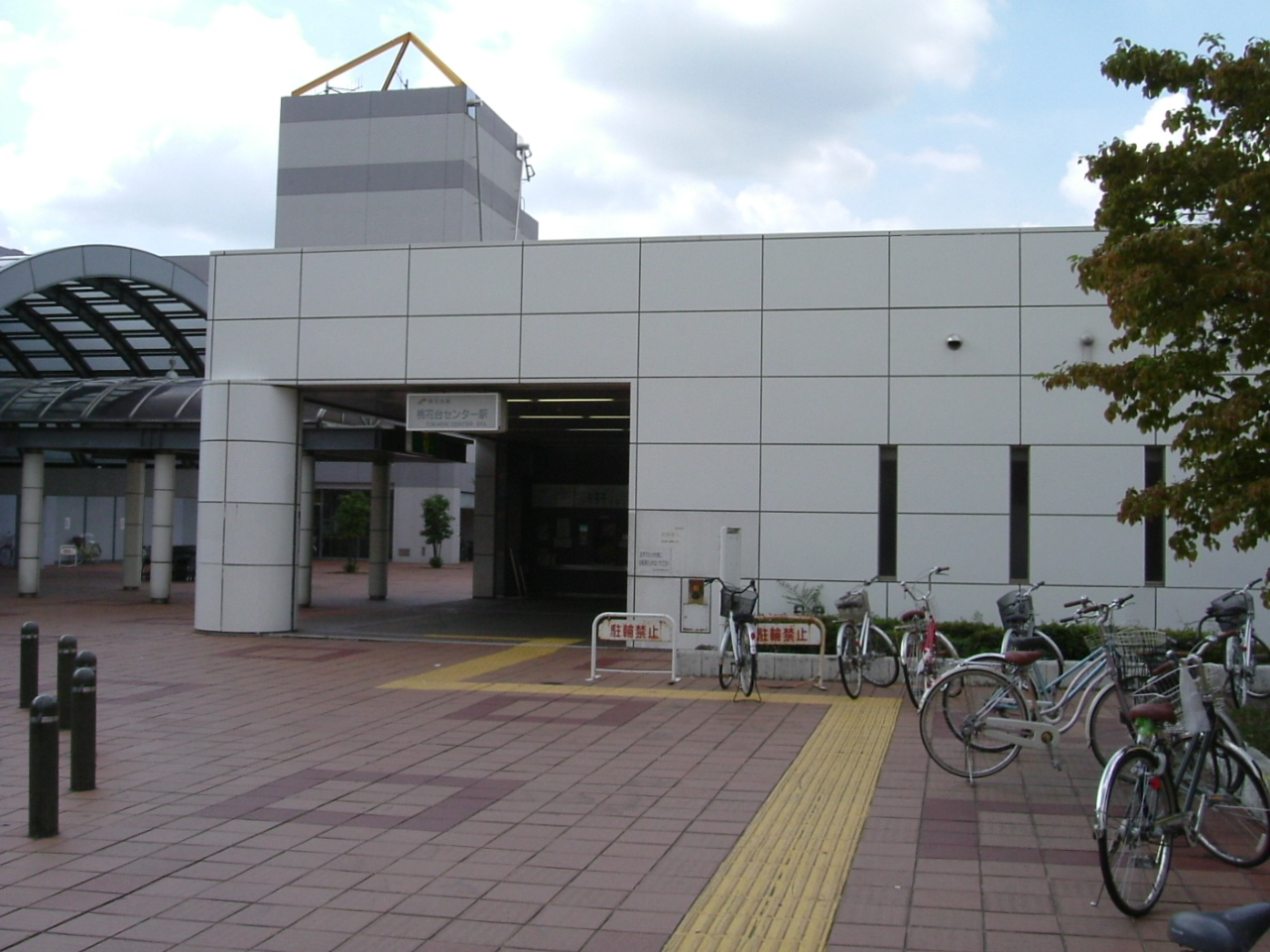 Tokadai-center Station is a train staion in Komaki, Aichi, Japan, on the Tokadai Line. 桃花台センター駅は、愛知県小牧市にある桃花台線の駅。